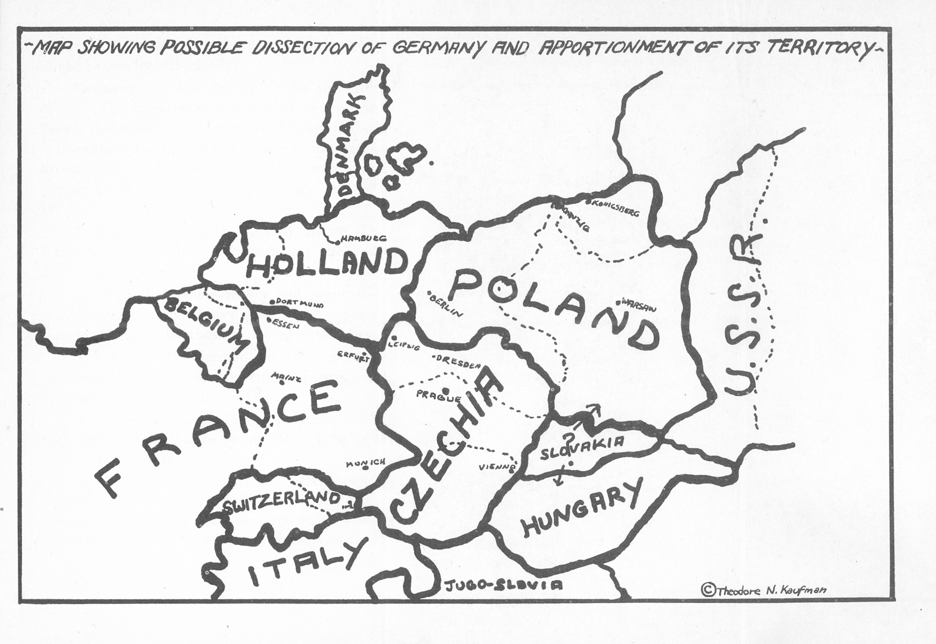 Map showing Theodore N. Kaufman's plans for the dismemberment of Germany after an Allied victory in World War II.